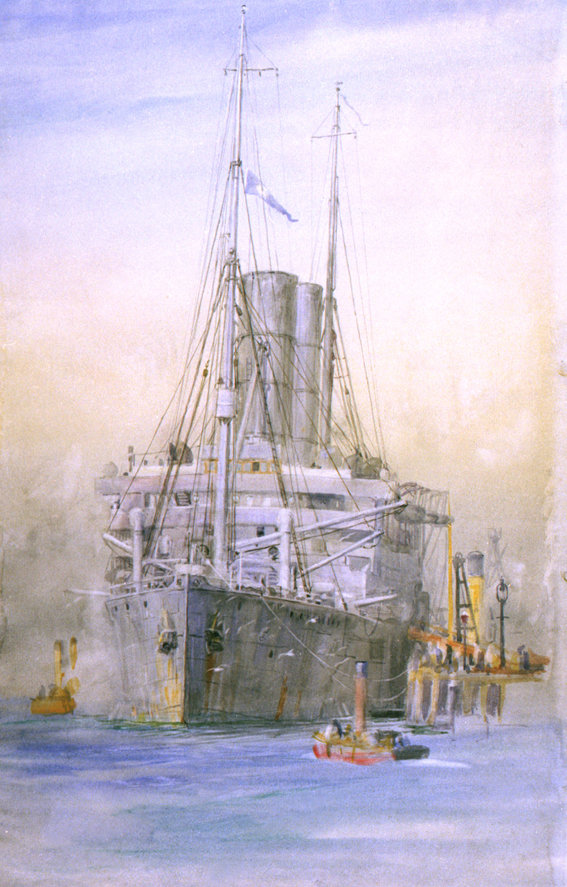 The liner 'Carmania' fitted as an armed merchant cruiser This is a reasonable drawing of the Cunard passenger liner 'Carmania' (1905) fitted out as an armed merchant cruiser in the period 1914-16. Having been built at Clydebank by John Brown & Co., and completed in November 1905, she was hired as an armed merchant cruiser at the start of the First World War and rapidly converted at Liverpool (7-14 August 1914) by being fitted with eight 4.7-inch guns. Following damage received in her battle with the German auxiliary cruiser 'Cap Trafalgar' on 14 September 1914, she underwent repairs at Gibraltar and was re-armed with 6-inch guns. She was decommissioned and returned to commercial service in July 1916. She appears to be shown with 6-inch guns here, which suggests a date for this high-quality drawing - which appears to show her alongside a quay in a naval setting from the attendant vessels.